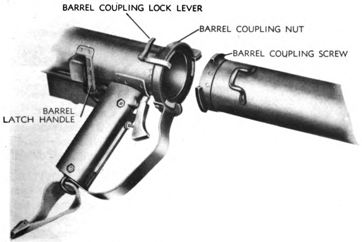 M9 Bazooka coupling